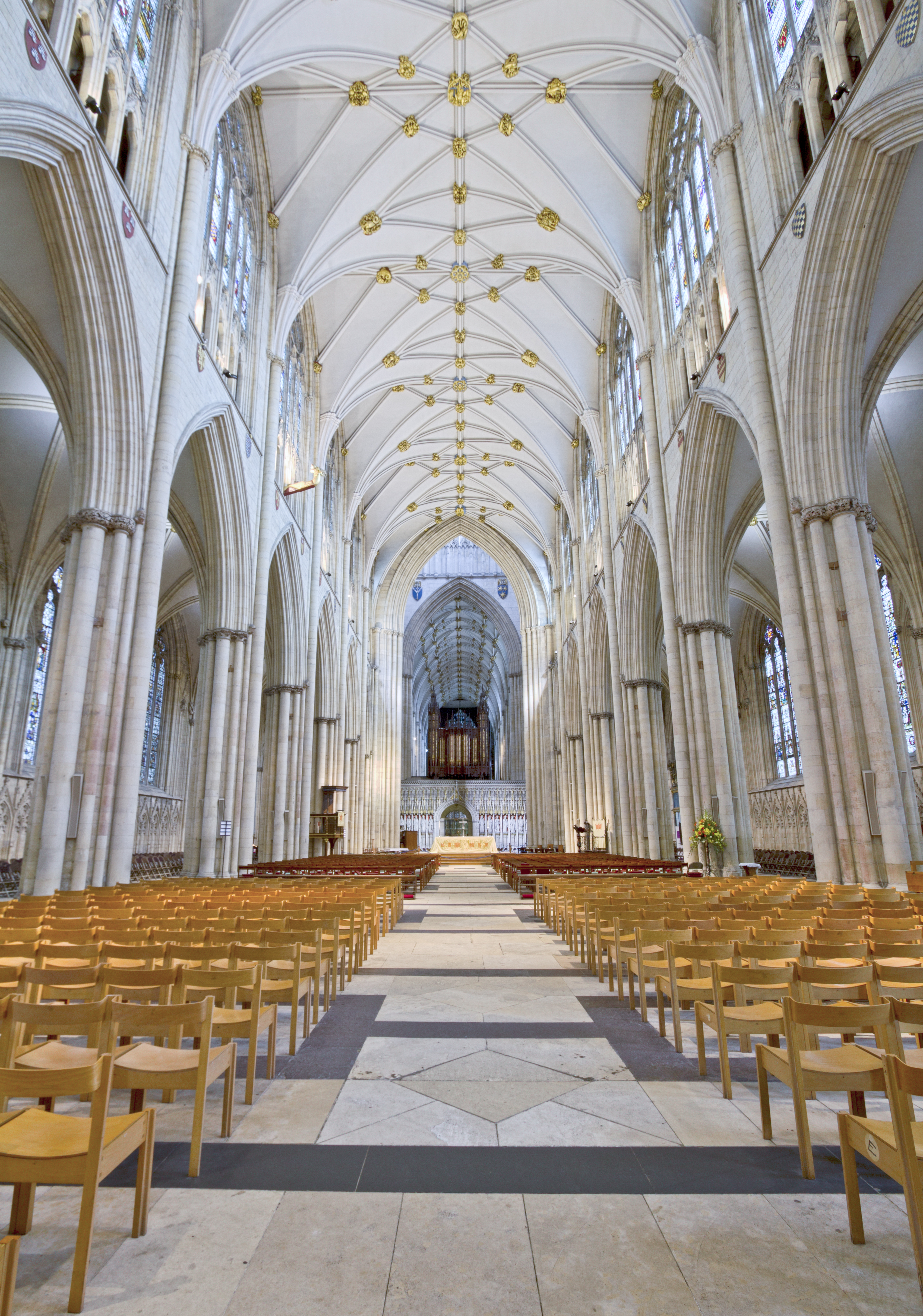 Here is an hdr photograph taken from inside York Minster. Located in York, Yorkshire, England, UK.